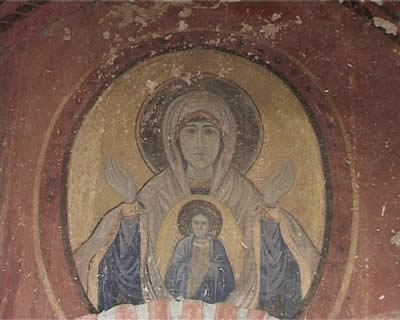 Fresco in St. Stephen Cave Church near Šipokno, Macedonia